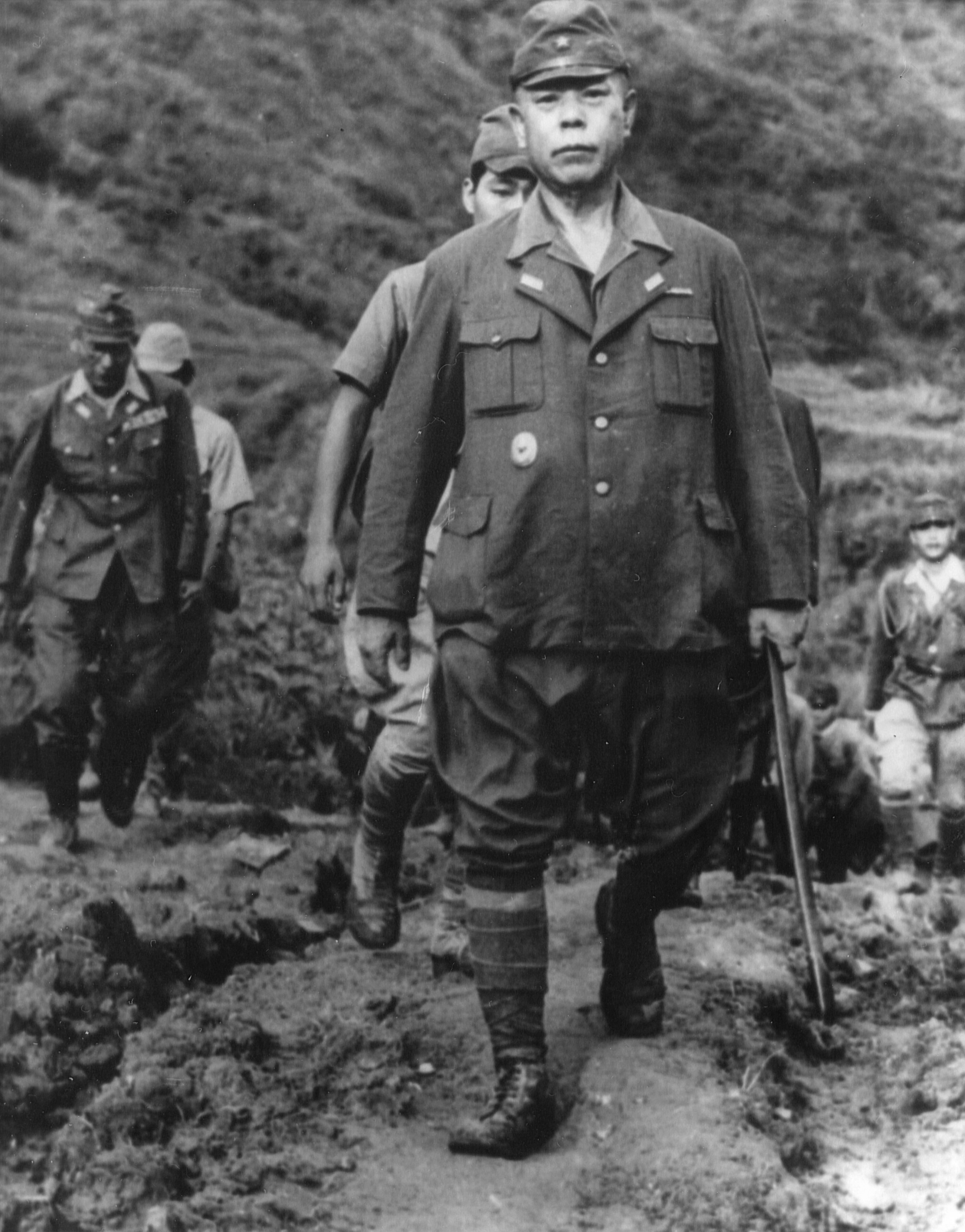 General Yamashita, Commander, Japanese forces, ‘Tiger of Malaya,” and his staff walk down the trail to U.S. forces in northern Luzon, occupied by Co ‘I’, 128th Inf Regt, 32nd Division. Photographer unknown. III-SC 662462.